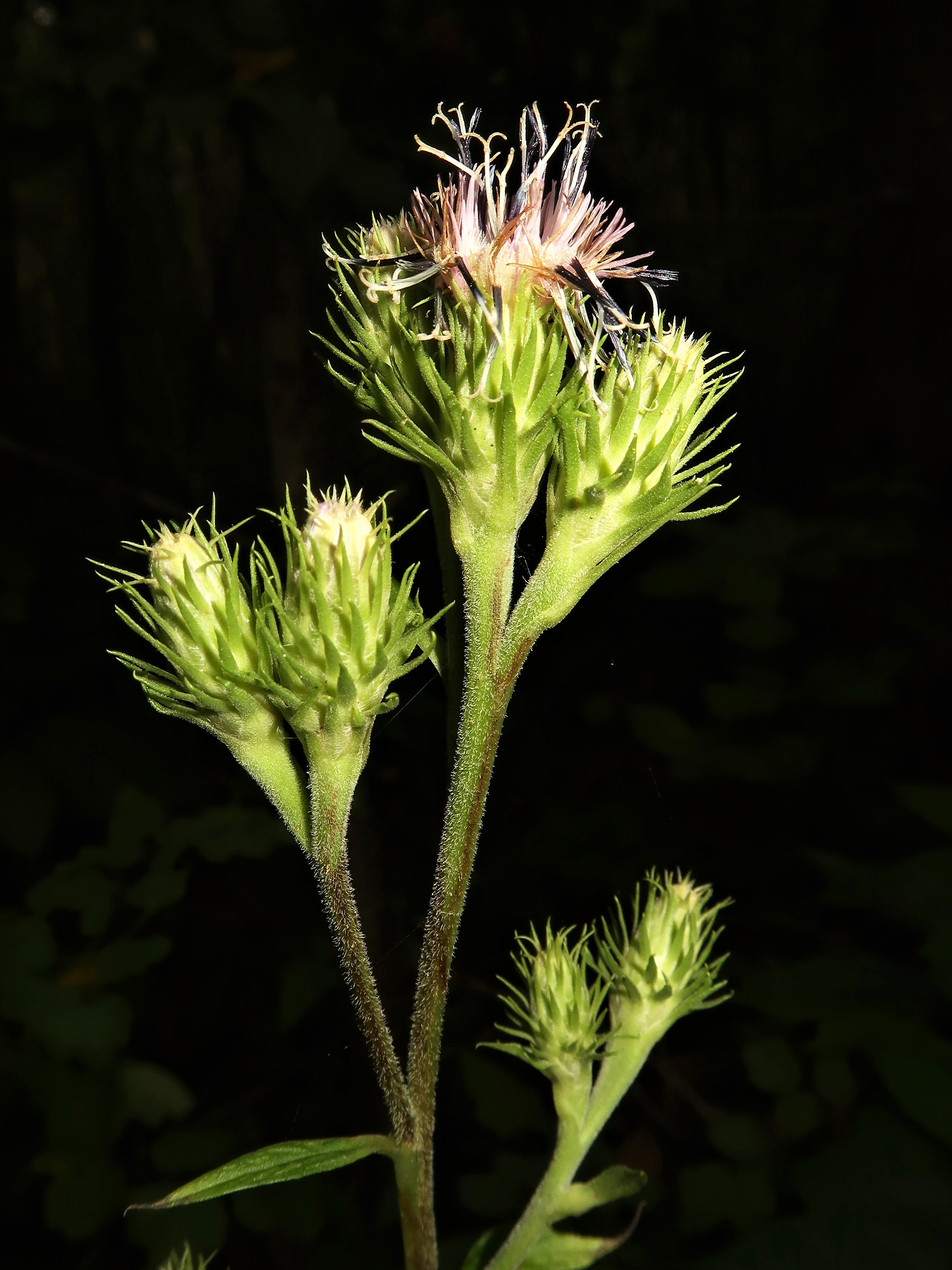 Saussurea sugimurae, Mount Hashikami-dake, Aomori pref., Japan